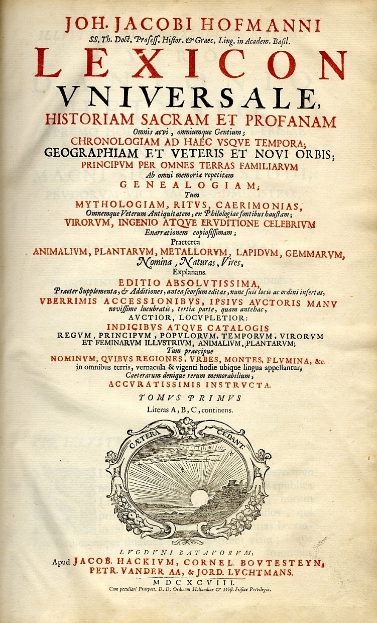 Title page of Encyclopedia published in 1698 in the latin language, in the public domain